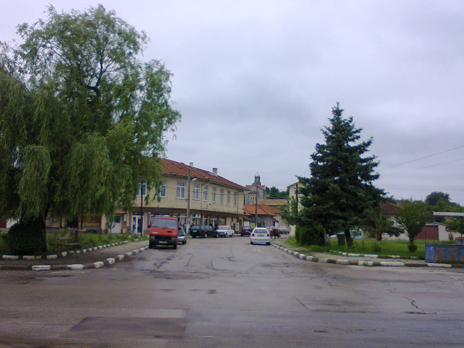 Salmanovo vilage